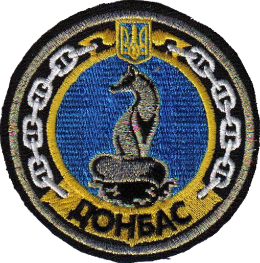 U500 Donbas a command ships of Ukrainian Navy